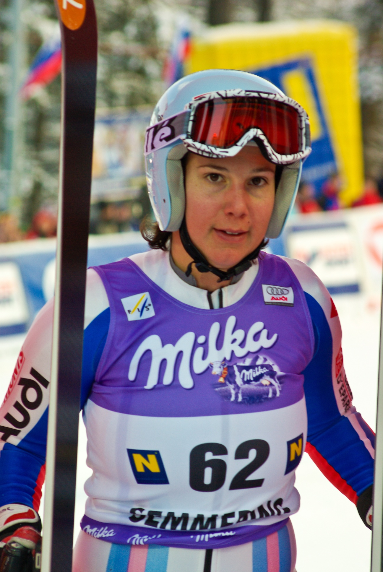 French alpine skier Marie Marchand-Arvier after the first run of the giant slalom in Semmering (Austria) on 28 December 2008.